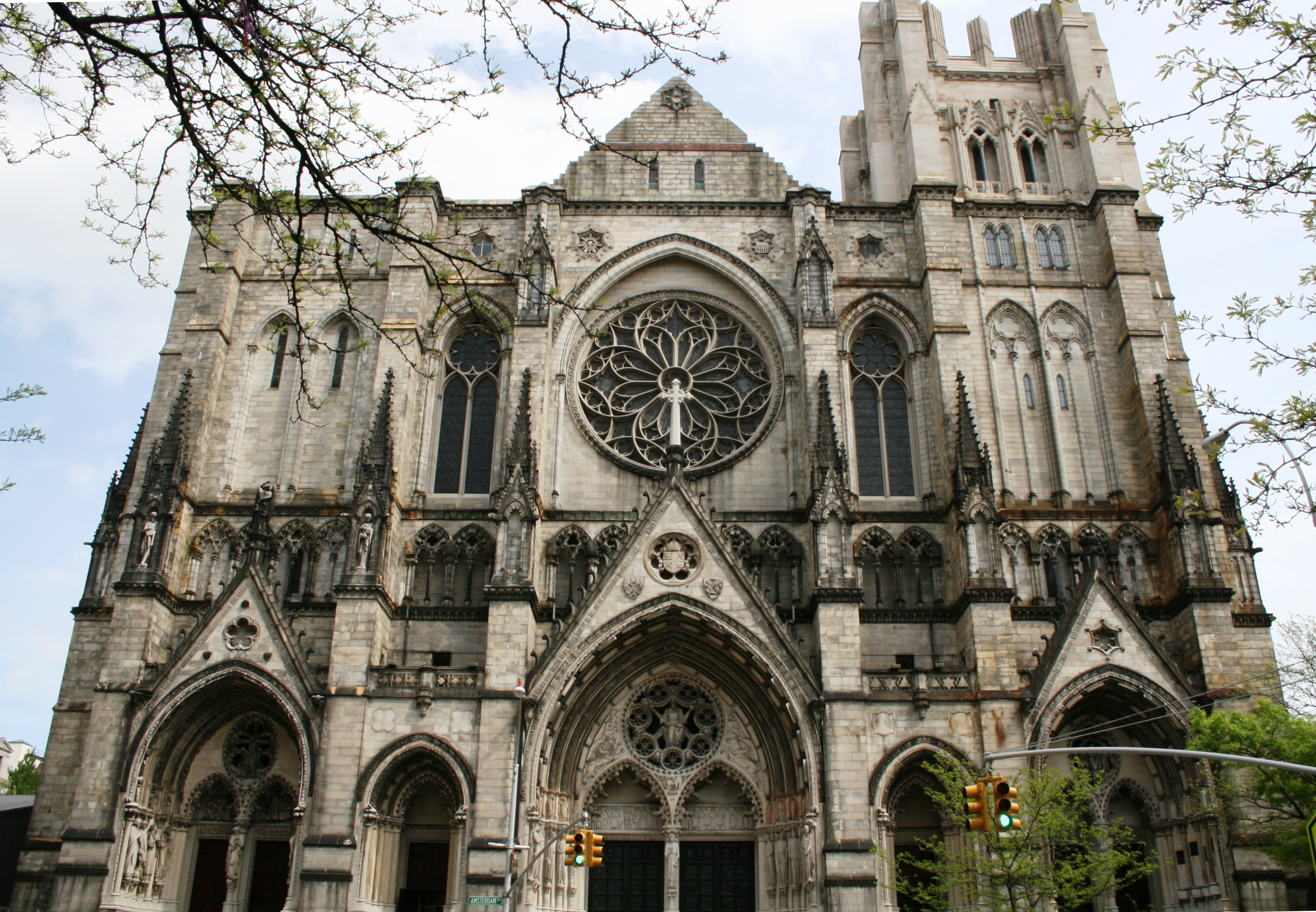 The Cathedral Church of Saint John the Divine, New-York.